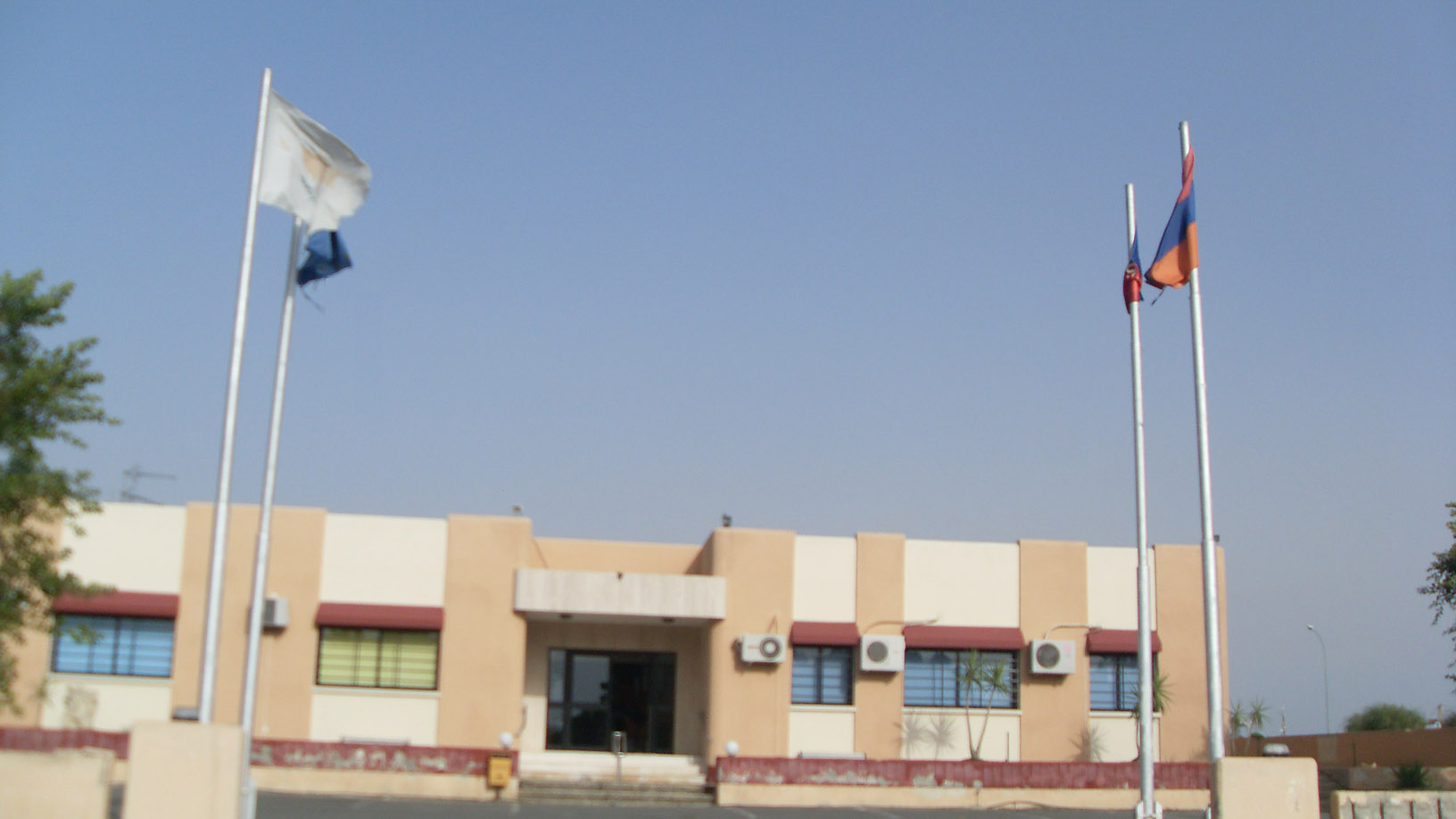 Nicosia's AGBU club.